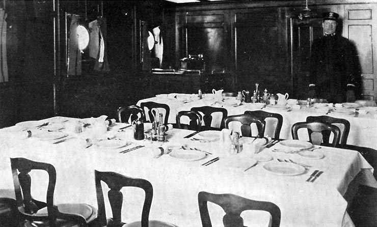 USS Panaman (ID # 3299) Halftone reproduction of a photograph of the ship's ward room, showing the tables set for a meal. Taken in 1919, while she was serving as a troop transport. This image was published in 1919 as one of ten photographs in a "Souvenir Folder" of views of and on board Panaman. Donation of Dr. Mark Kulikowski, 2006. U.S. Naval Historical Center Photograph.